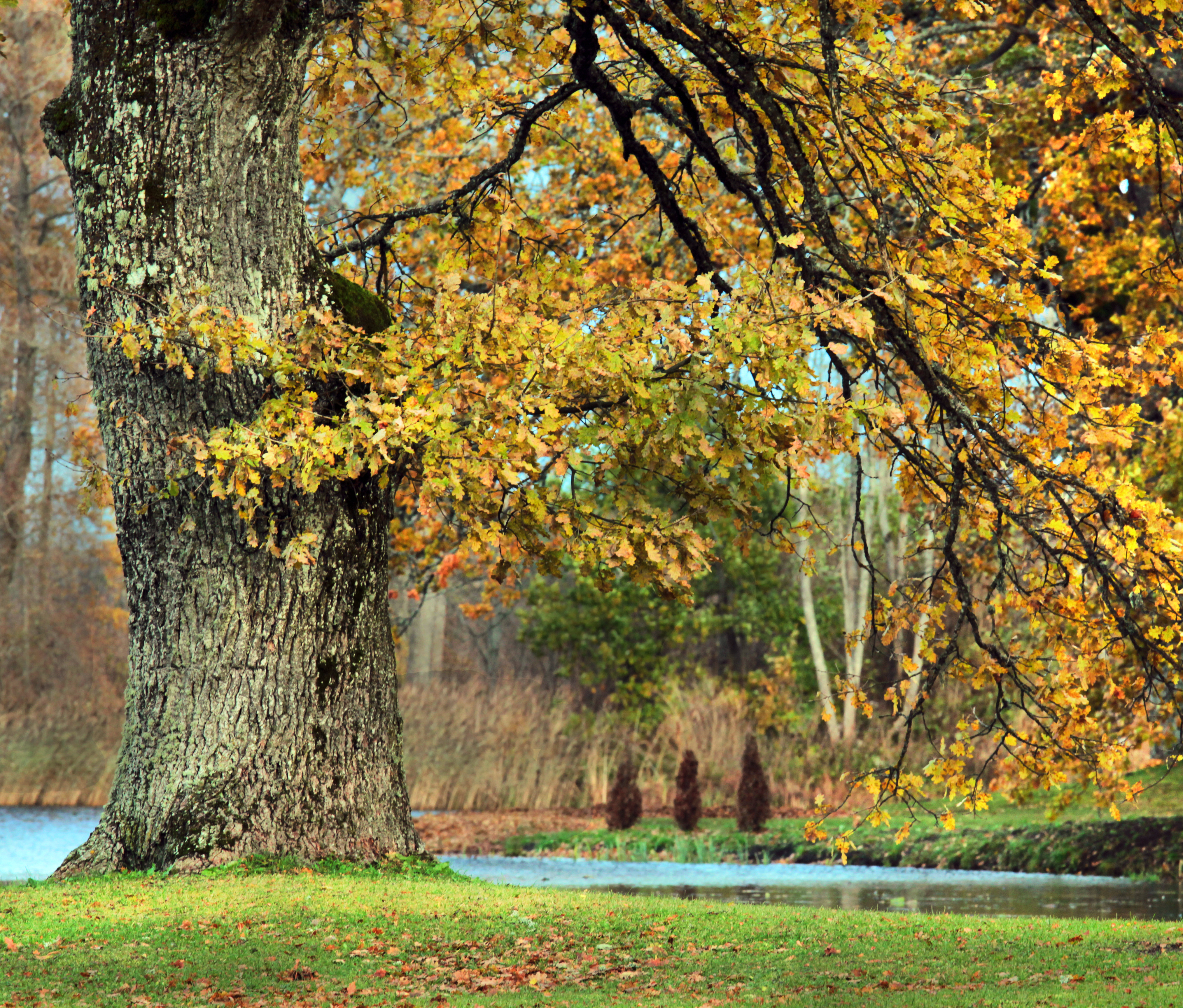 Old oak tree on the shore of Lake Koluvere.Estonia